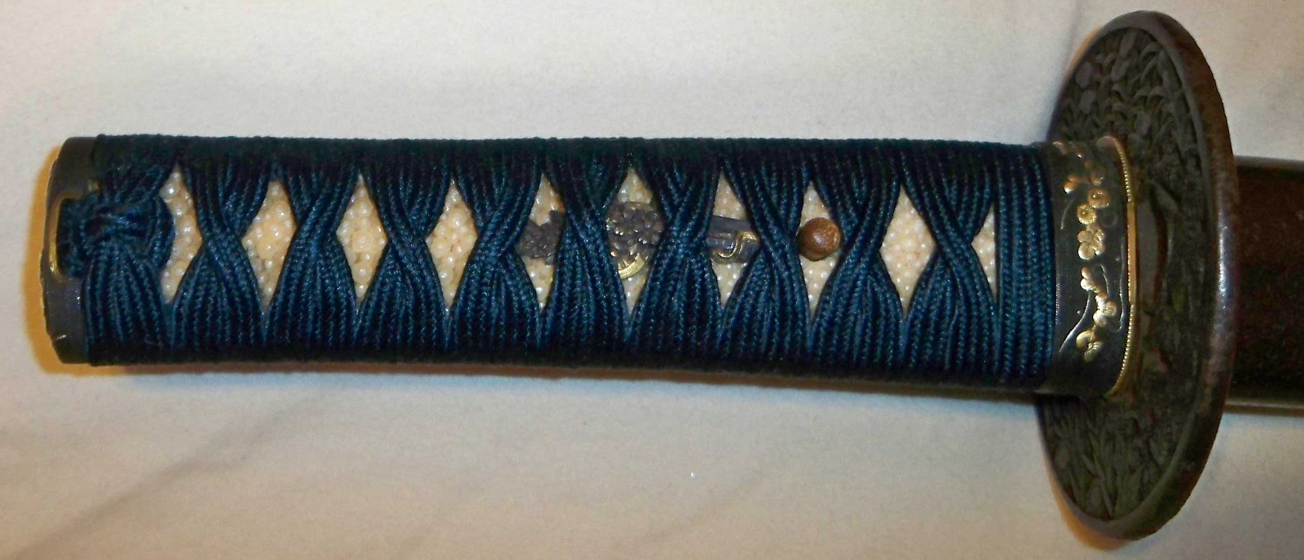 Antique Japanese wakizashi tsuka.